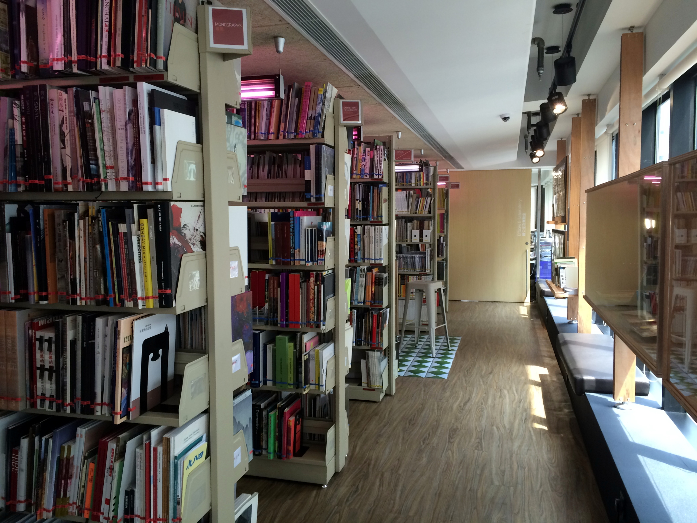 Asia Art Archive